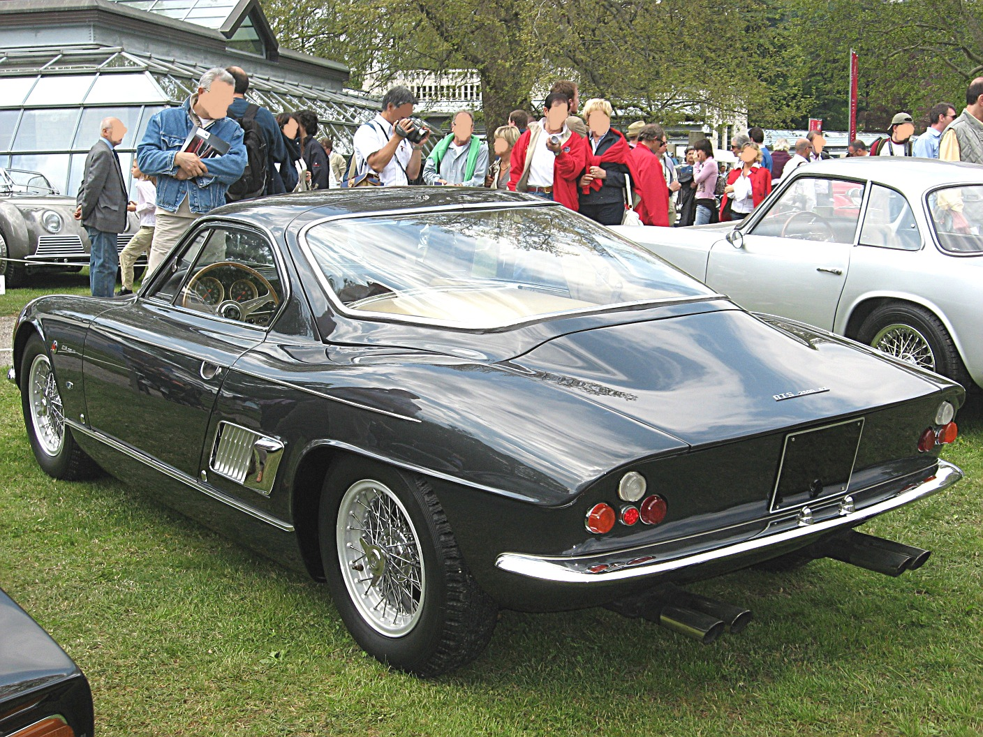 1963 A.T.S. 2500 GT at the 2008 "Villa d'Este" concours d'elegance in Cernobbio (CO), Italy.